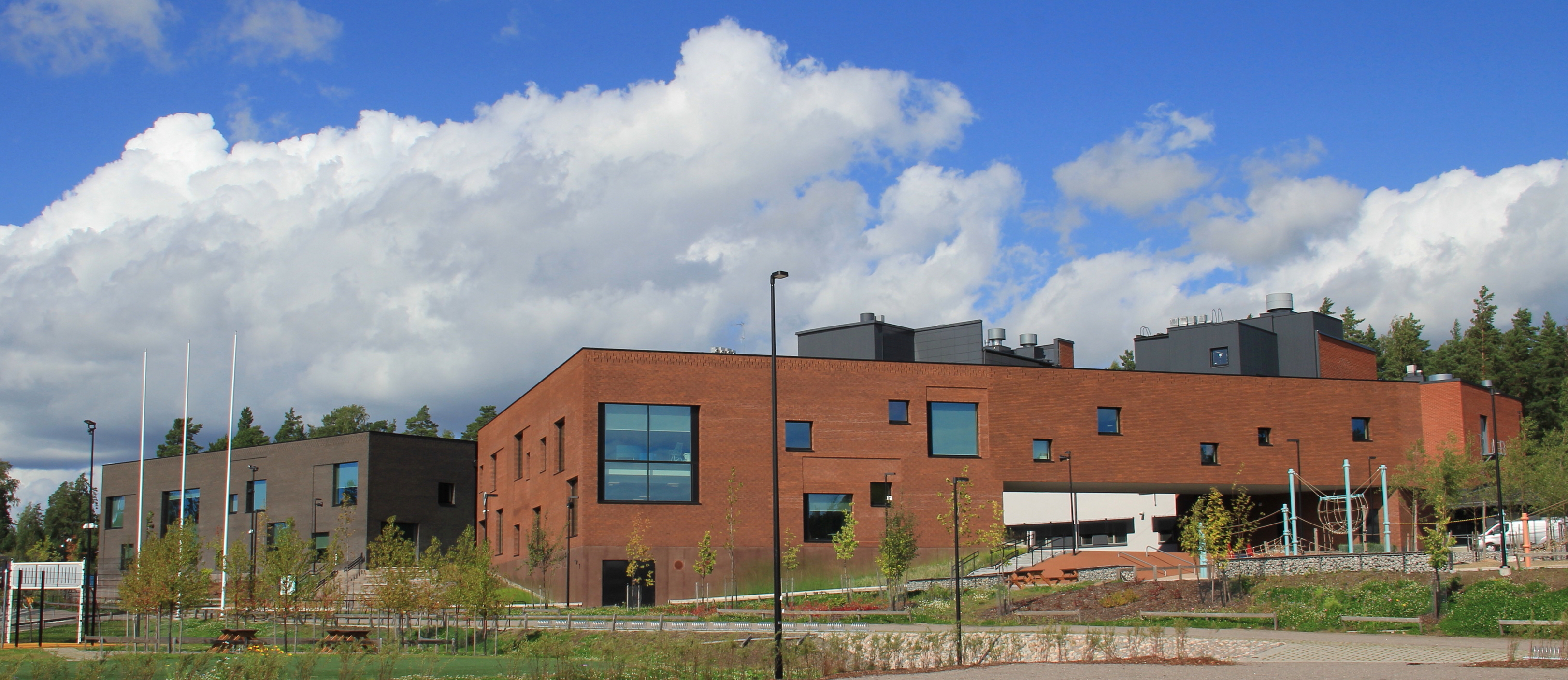 Sipoonlahti primary school, Söderkulla, Sipoo, Finland.